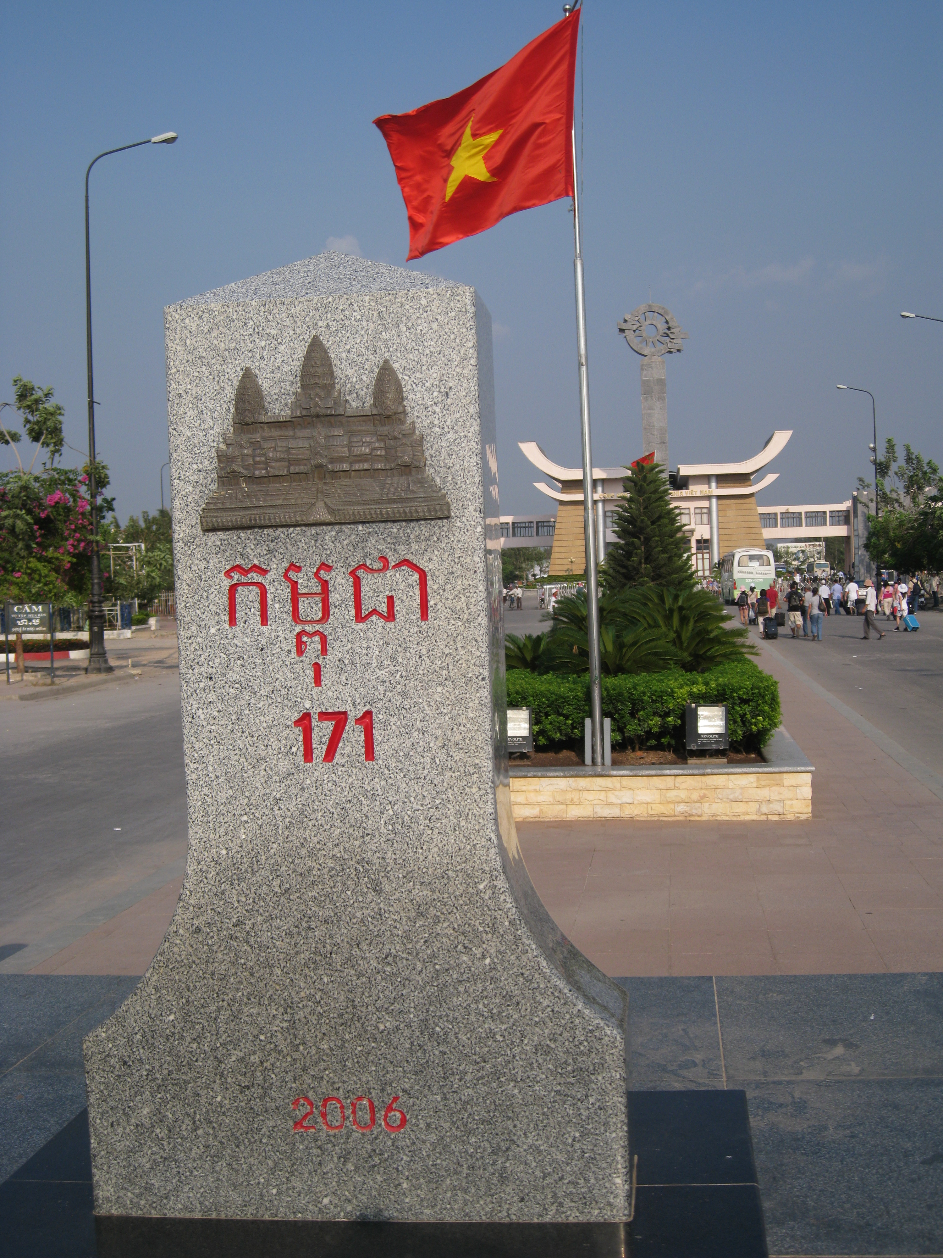 Mộc Bài border.